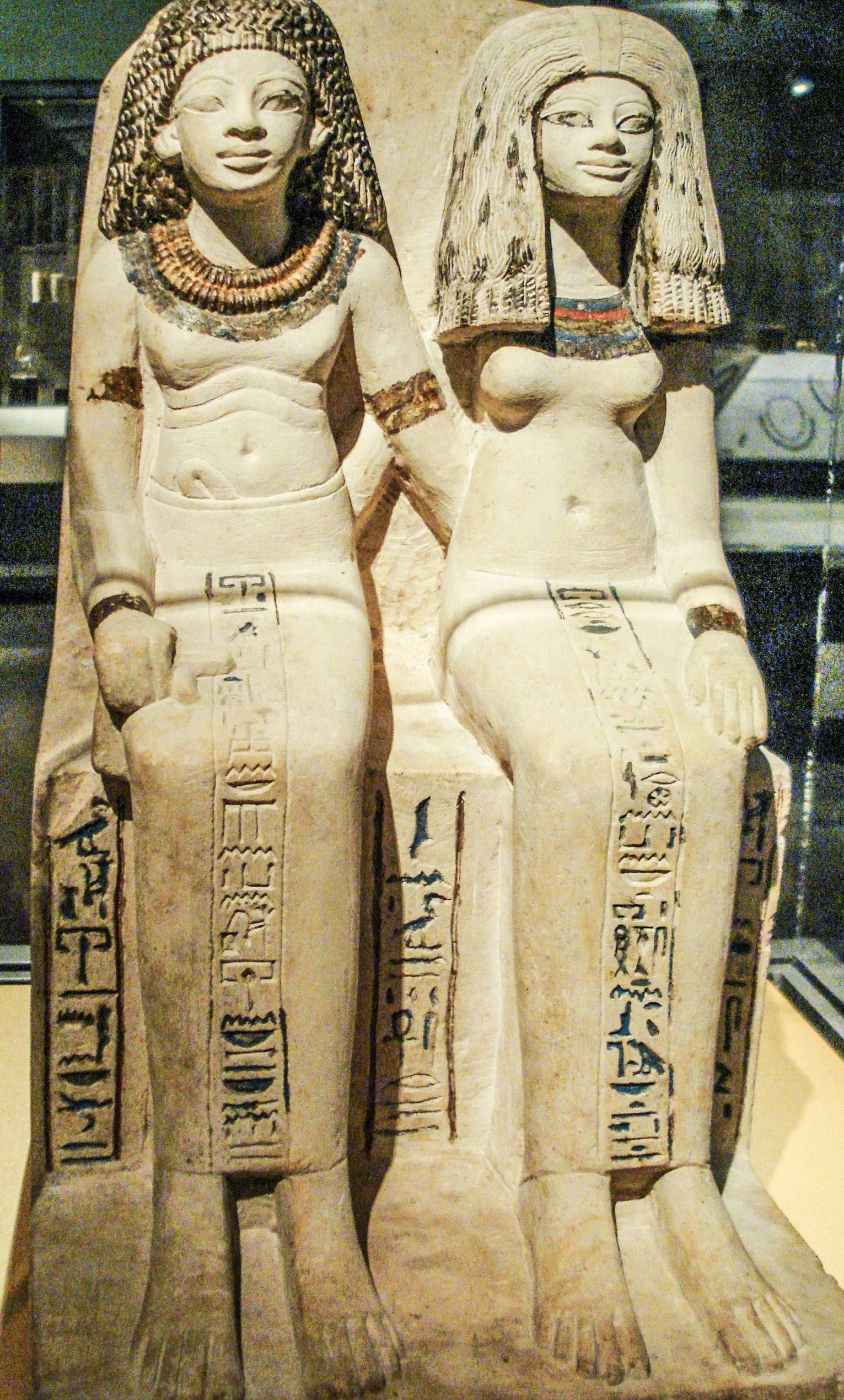 Pair statue of husband and wife Nebsen and Nebet-Ta (names indicated by inscription). Limestone. New Kingdom, Dynasty XVIII, reign of Thutmose IV or Amenhotep III, c. 1400-1352 BC. Most likely from Dahamsha.